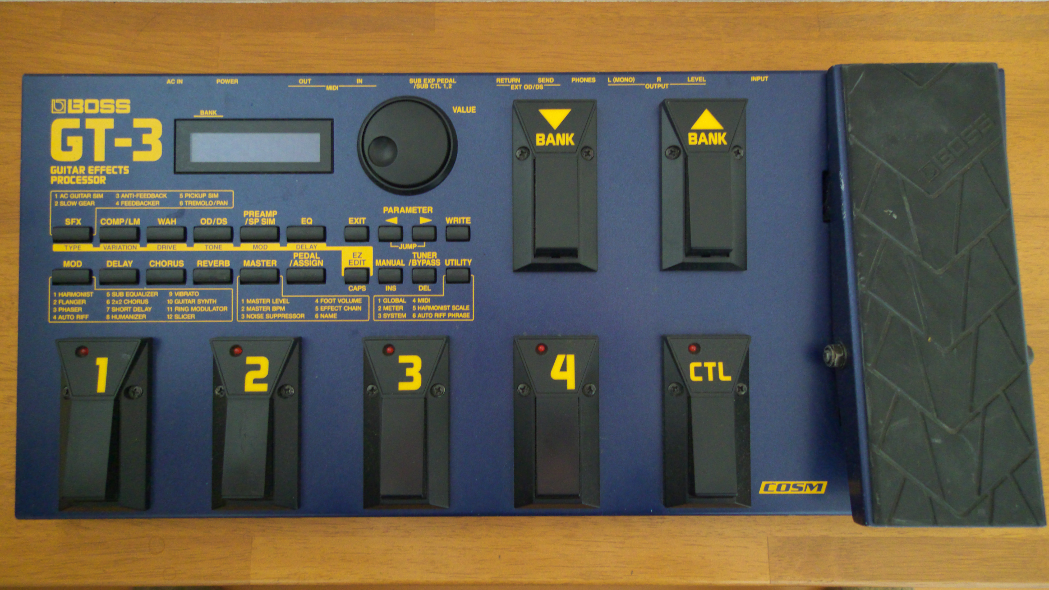 BOSS GT-3 multi-effects processor (top)